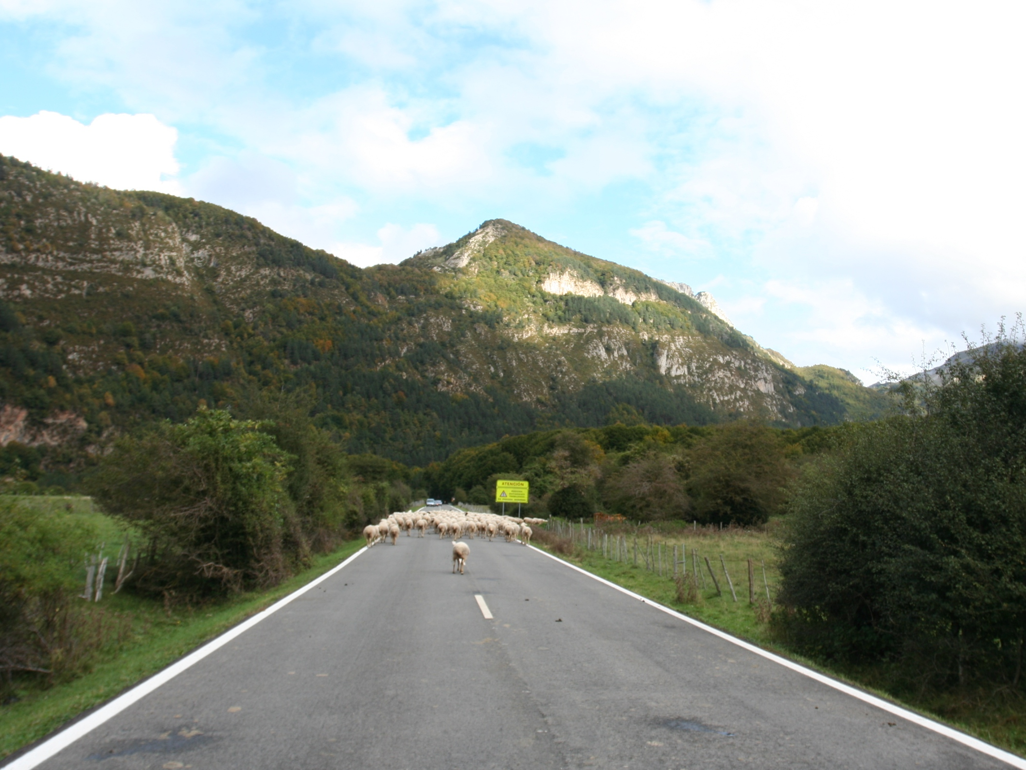 upper sections of the Roncal Valley